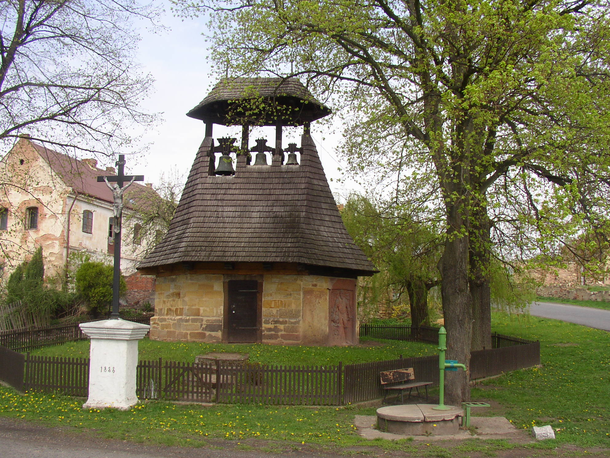 Neprobylice, Kladno District, Czech Republic. Belfry in centre of the village. This exact replica of an older belfry from about 16th century was constructed in 1896. The bells are original, from 15th and 16th century. Two Renaissance tombstones belonging to members of Pětipeský of Chyše and Egerberk family, who once owned the village, can be seen in wall at foot of the belfry.